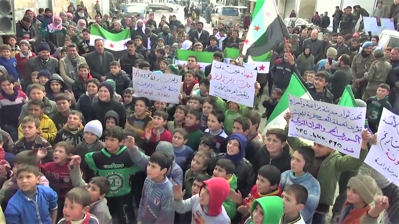 A demonstration in the town of Bizaah, northern Syria, in support of the Turkish military operation against the People's Protection Units (YPG) and the Women's Protection Units (YPJ) in the Afrin Region